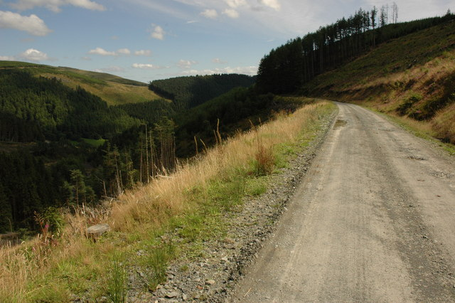 Forest road on Mynydd Hendre-ddu Forest road on Mynydd Hendre-ddu in the Dyfi Forest.